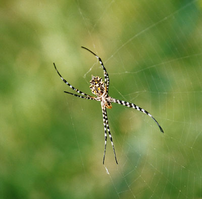 Common spider in The Gambia, West Africa Photograph by Henryk Kotowski